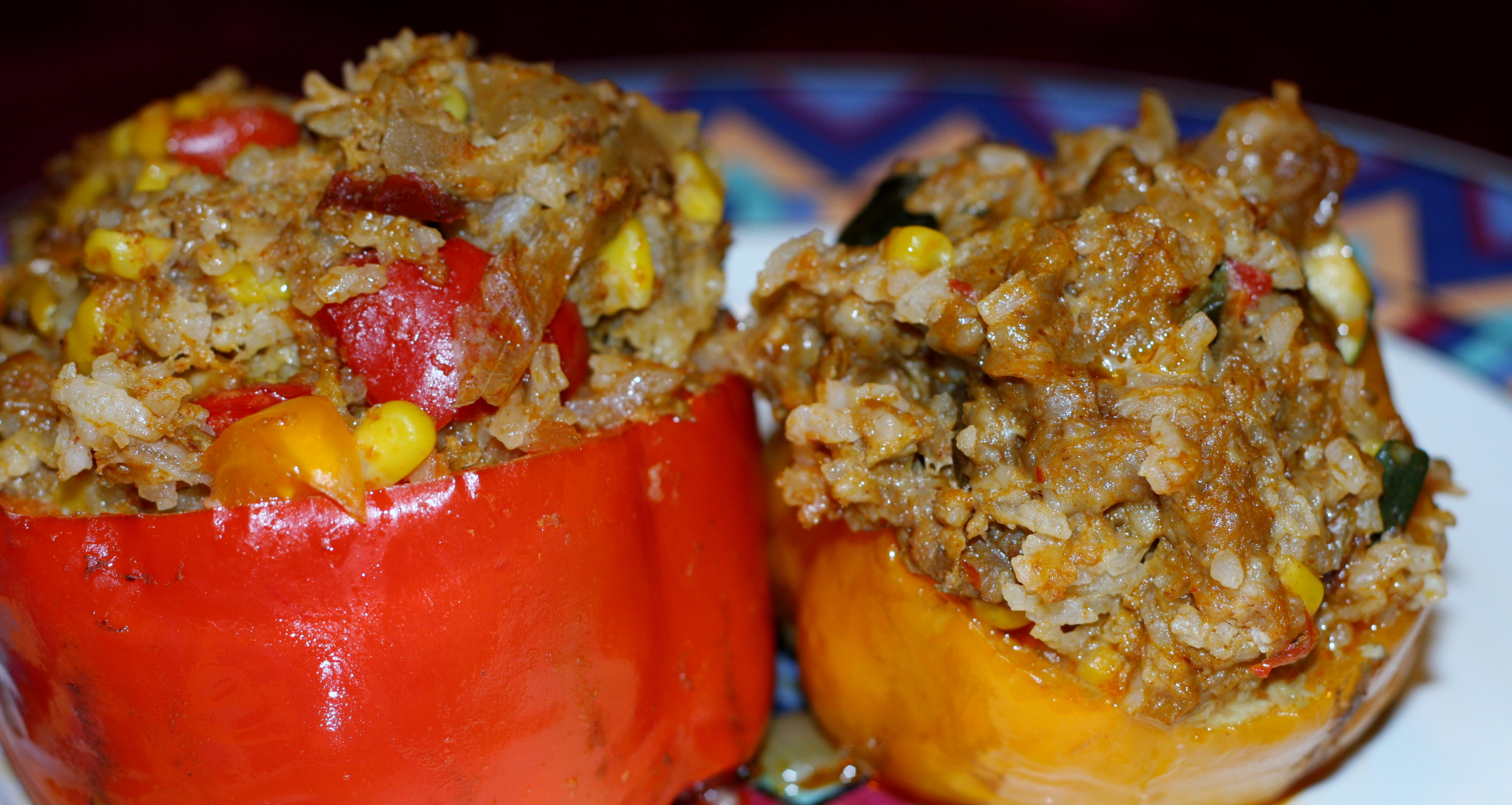 Slow-cooked stuffed peppers